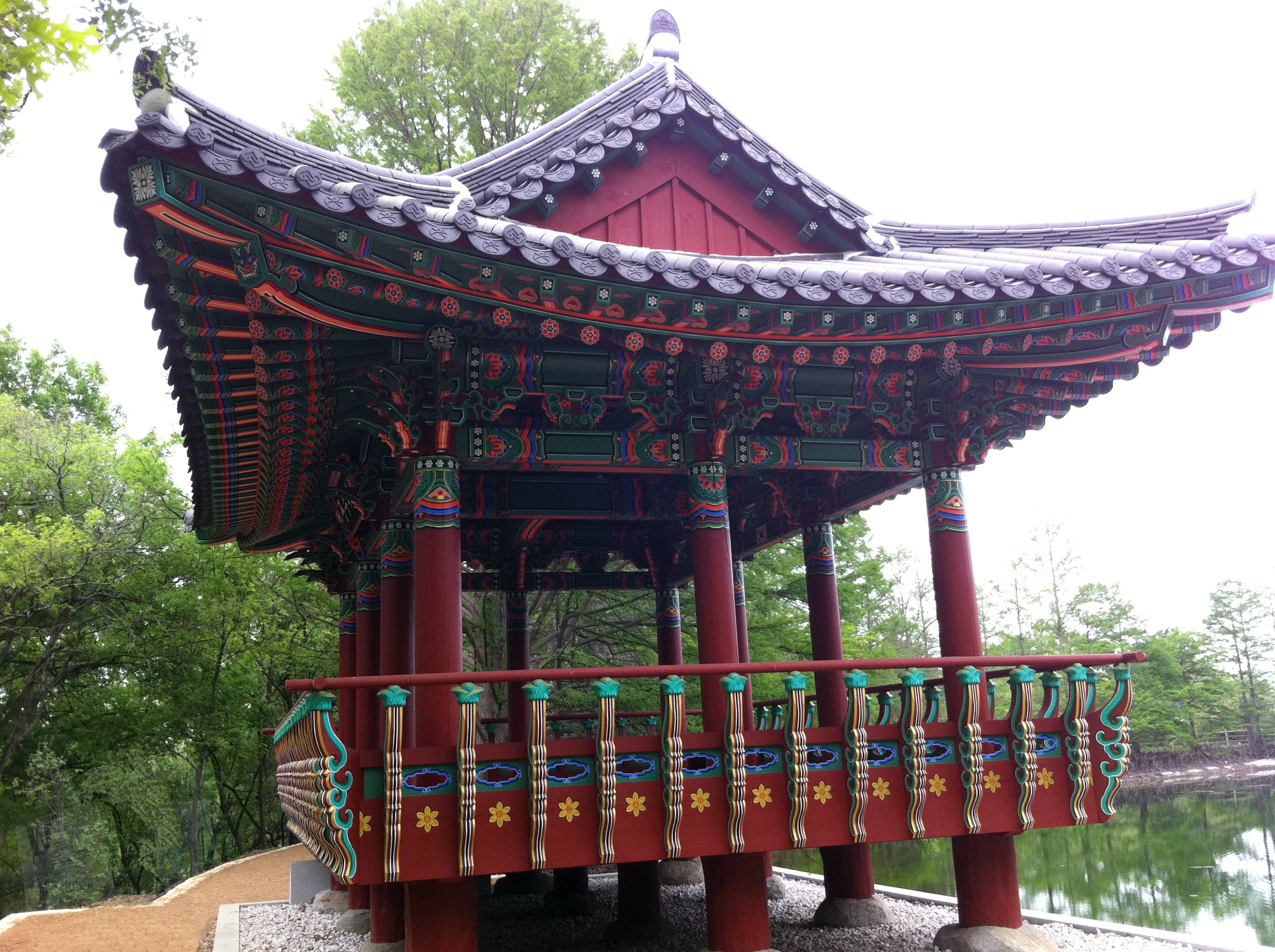 Pavilion of Gwang-ju. Constructed by the Korean municipality of Gwangju, in honor of the sisterhood between the two cities of Gwangju and San Antonio, Texas. Located in San Antonio, TX.